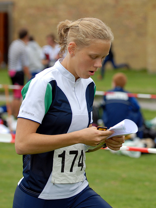 Siri Ulvestad at a Craft Cup race in Nærlandsparken 2007.